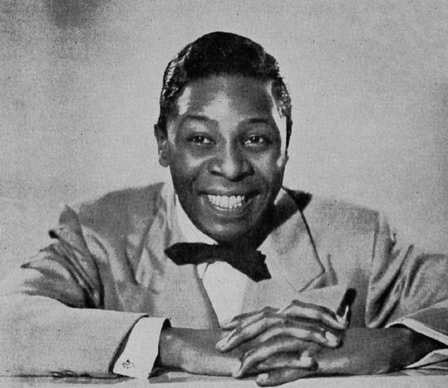 Photo of pianist Maurice Rocco from an ad in The Radio Annual in 1944. The book was published yearly and was made up of listings of radio performers. Many performers chose to have more than the listing, and paid for an ad in the publication.